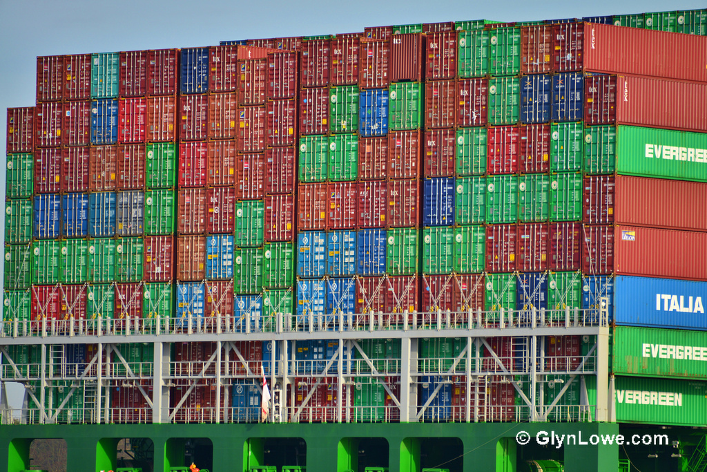 CSCL Saturn, Ships in Hamburg Container ships are cargo ships that carry all of their load in truck-size intermodal containers, in a technique called containerization. They are a common means of commercial intermodal freight transport and now carry most seagoing non-bulk cargo. Container ship capacity is measured in twenty-foot equivalent units (TEU). Typical loads are a mix of 20-foot and 40-foot (2-TEU) ISO-standard containers, with the latter predominant. More Photos At